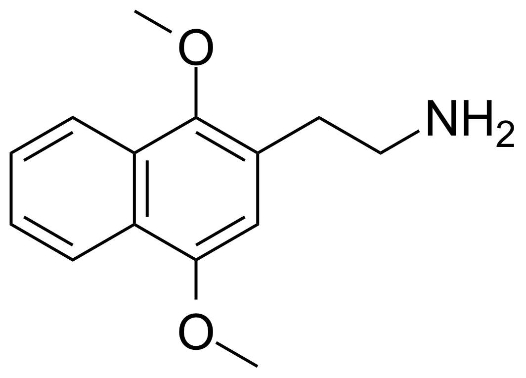 Chemical structure of 2C-G-N-Chemdraw